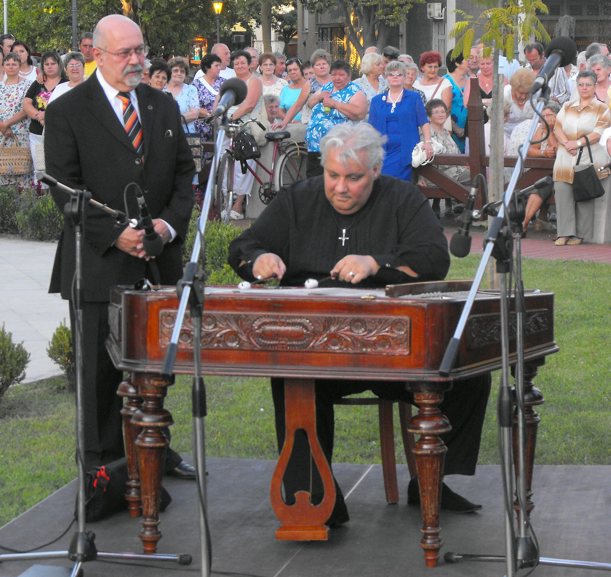 Oszkár Ökrös (right) playing cimbalom in Makó, Hungary.